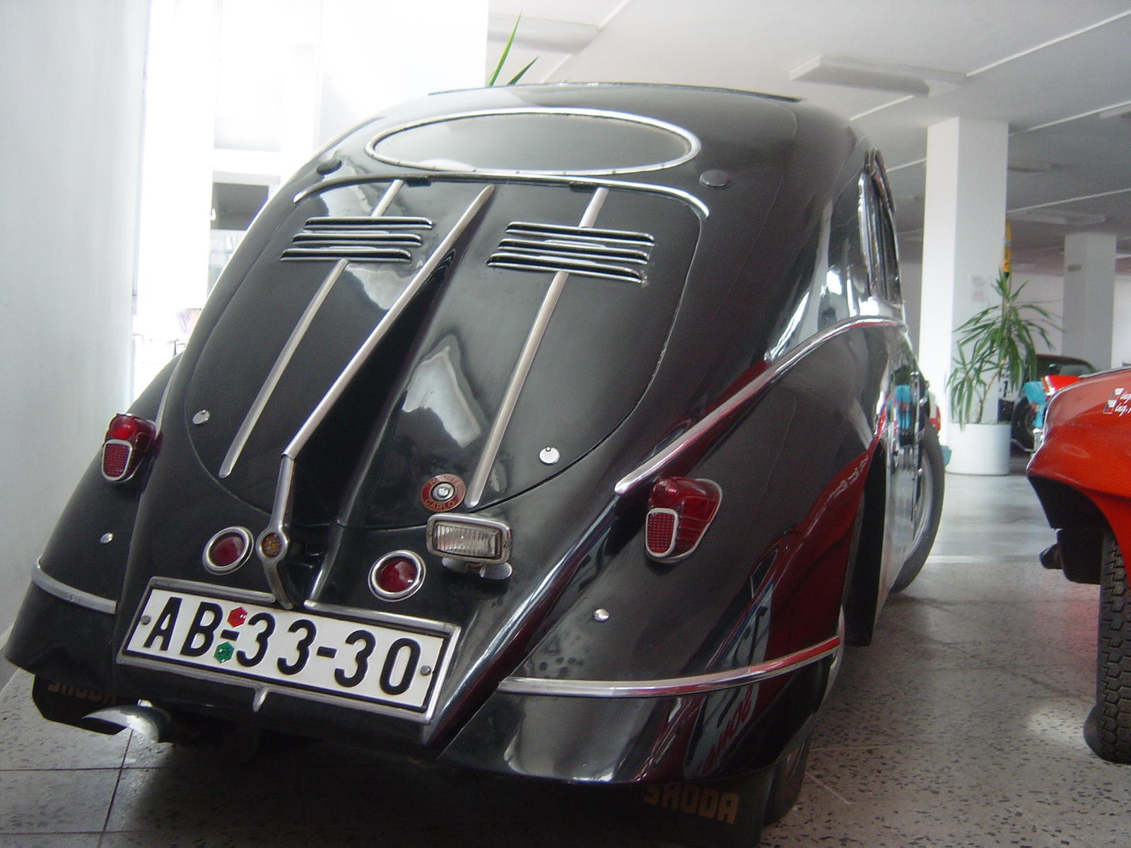 Škoda Popular Special at the Sportauto Museum, Lány.